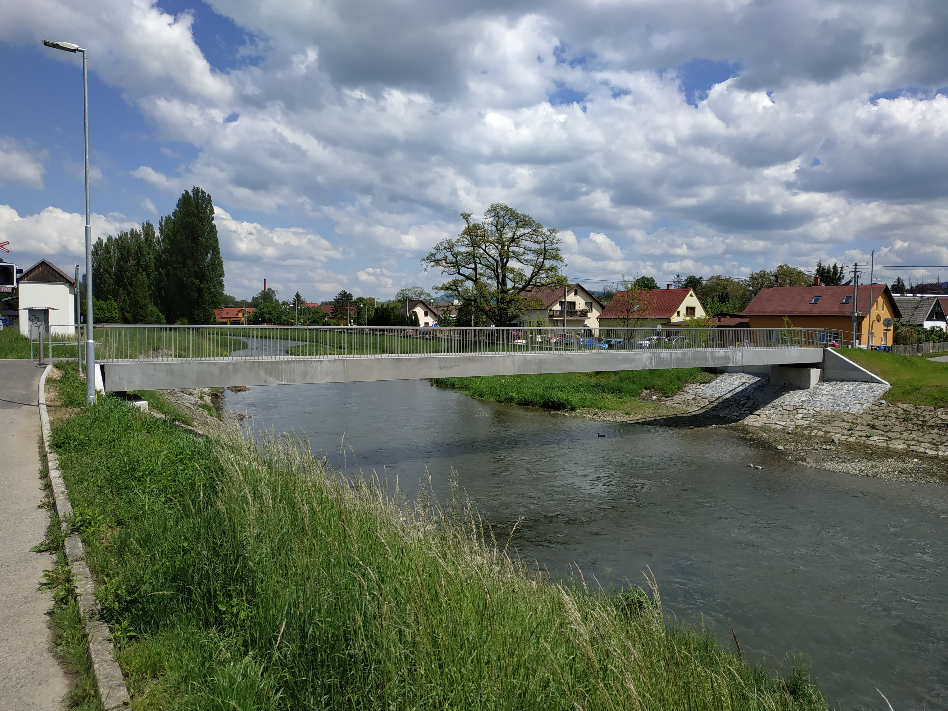 Footbridge in Příbor